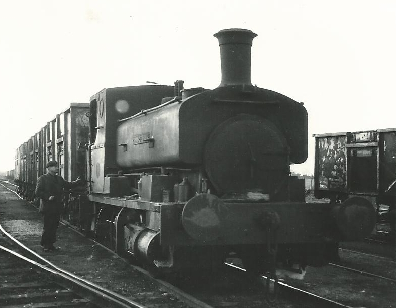 Barclay 14" 0-4-0ST No.1119 of 1907, NCB "Glan Dulais" shunting empty 21 ton coal wagons at Pontardulais yard before heading off to Graig Merthyr Colliery 03/69. Scanned photograph taken with a Kowa SET camera.